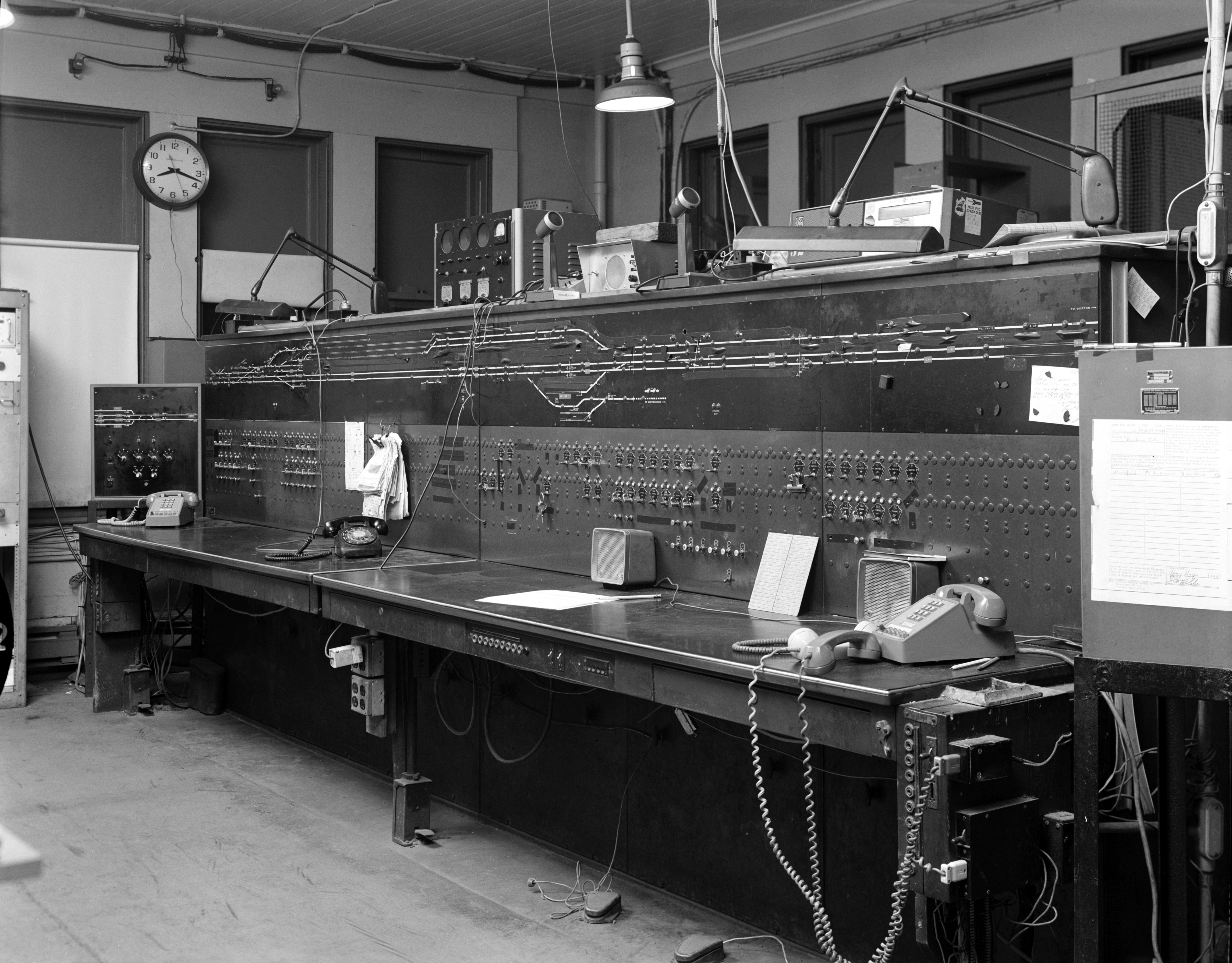 View of interlocking machine control panel inside the Promenade Street Interlocking Tower, Providence, Rhode Island. Tower built 1909 by the New York, New Haven and Hartford Railroad. The all-relay interlocking machine was built by Union Switch & Signal Co. and installed in 1946 (replacing an earlier electro-mechanical machine). Tower later operated by Penn Central and Amtrak; closed in 1986. Cropped photo.